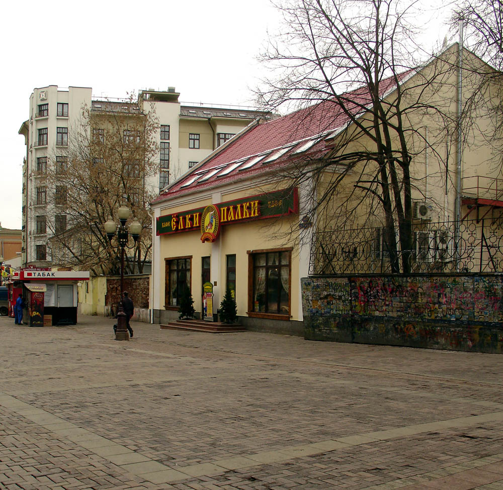 Arbat Street, Moscow